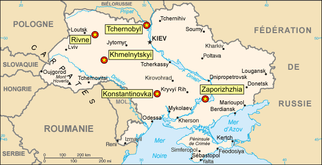 Map of the Ukrainian nuclear power plants (in French)